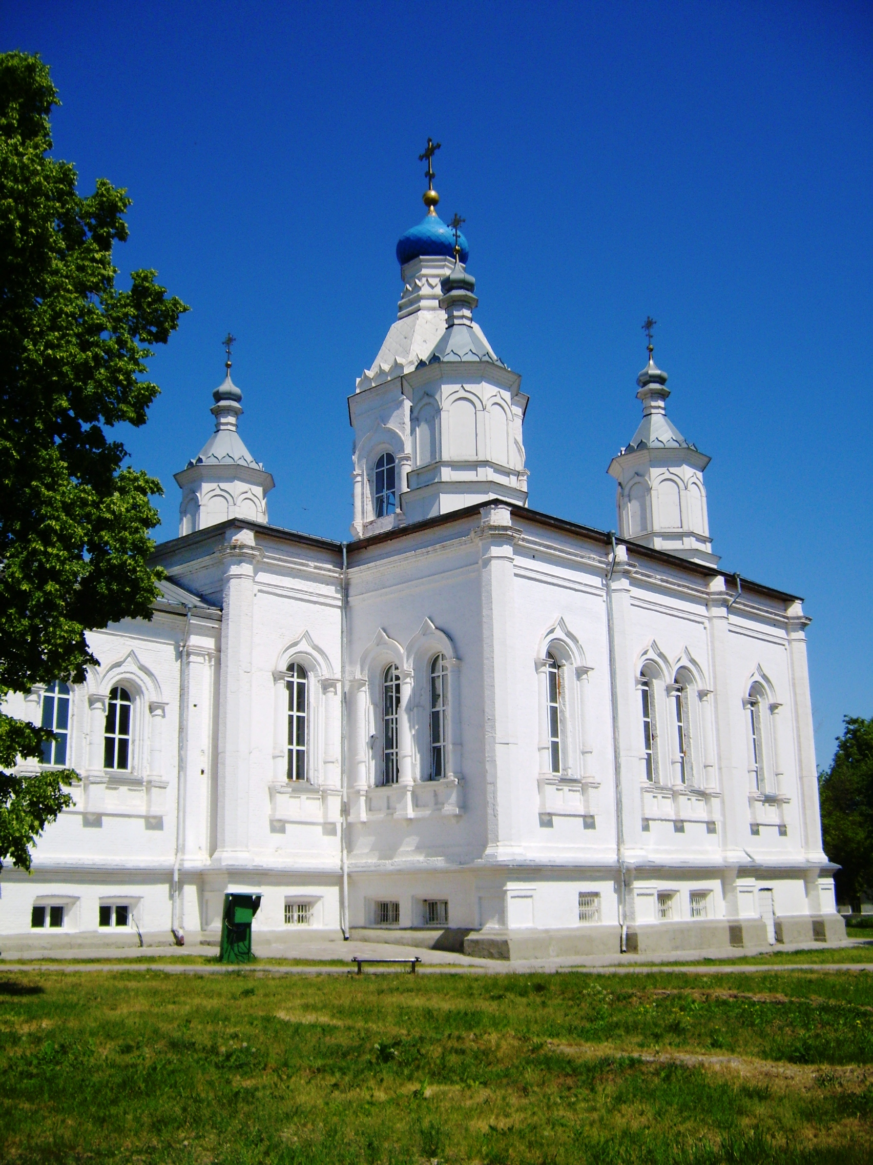 Bogorodichny Scheglovsky Monastery